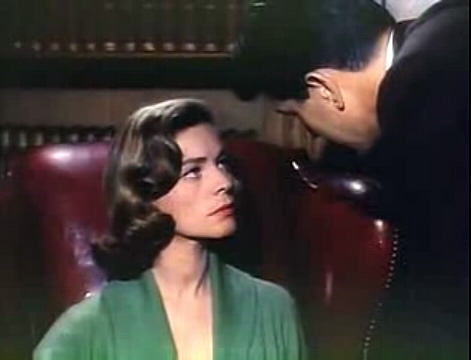 Screenshot of Lauren Bacall and Rock Hudson from the trailer for the film Written on the Wind